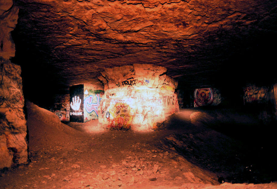 in the abandoned stone mines under Paris. Called the "salle raidos" by cataphiles, this is (or rather, was) one of the largest underground caverns in the 14e arrondissement. Since 2007 it is filled with a large number of enormous concrete reinforcement columns.